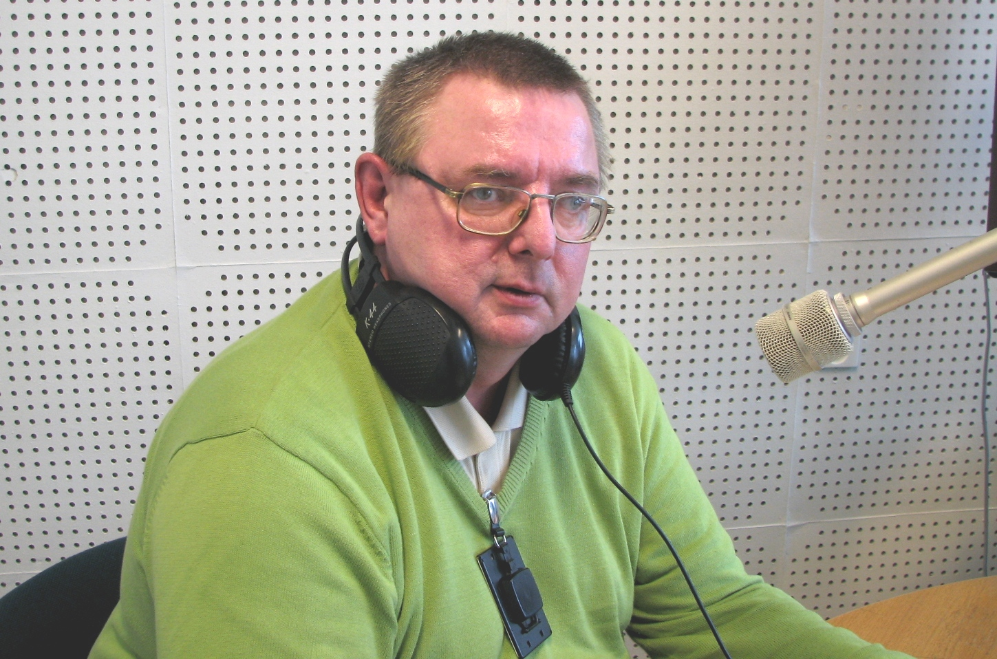 Mart Ummelas in Vikerraadio studio